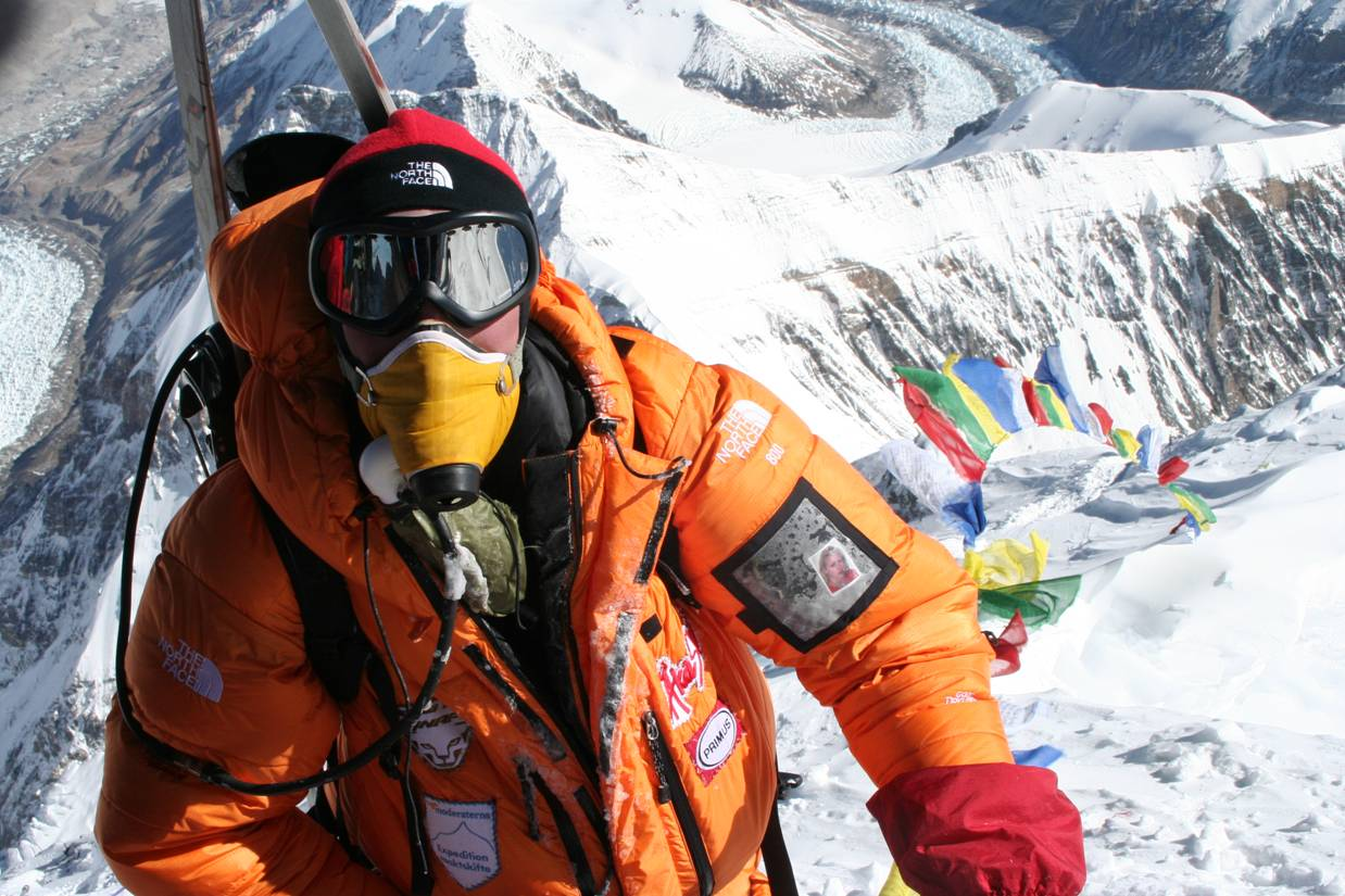 Olof Sundstrom on Everest summit.